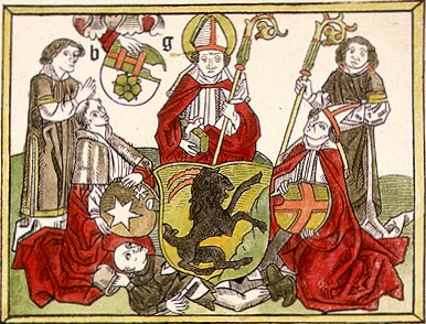 St. Henry of Uppsala, bishop and martyr, standing on top of his assassin Lalli, with Bishop Konrad Bitz, who commissioned the Missale Aboense, and Dean Magnus Stiernkors kneeling at his side. Also shown is the printer's mark of Bartholomäus Ghotan.